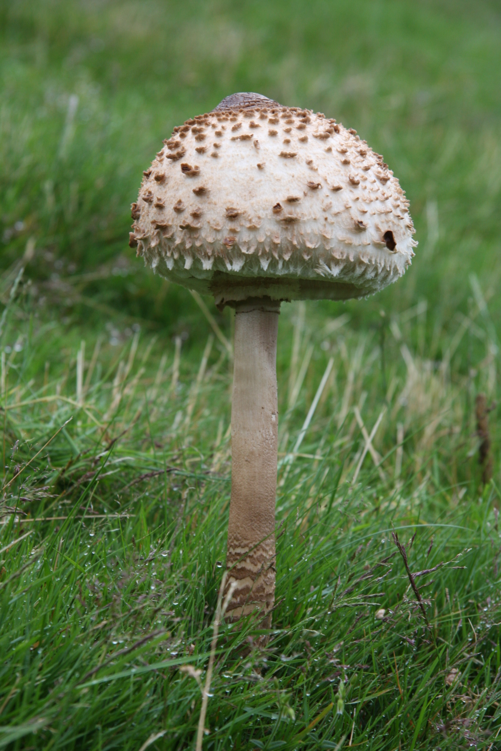 A parasol mushroom (Macrolepiota procera) approaching maturity